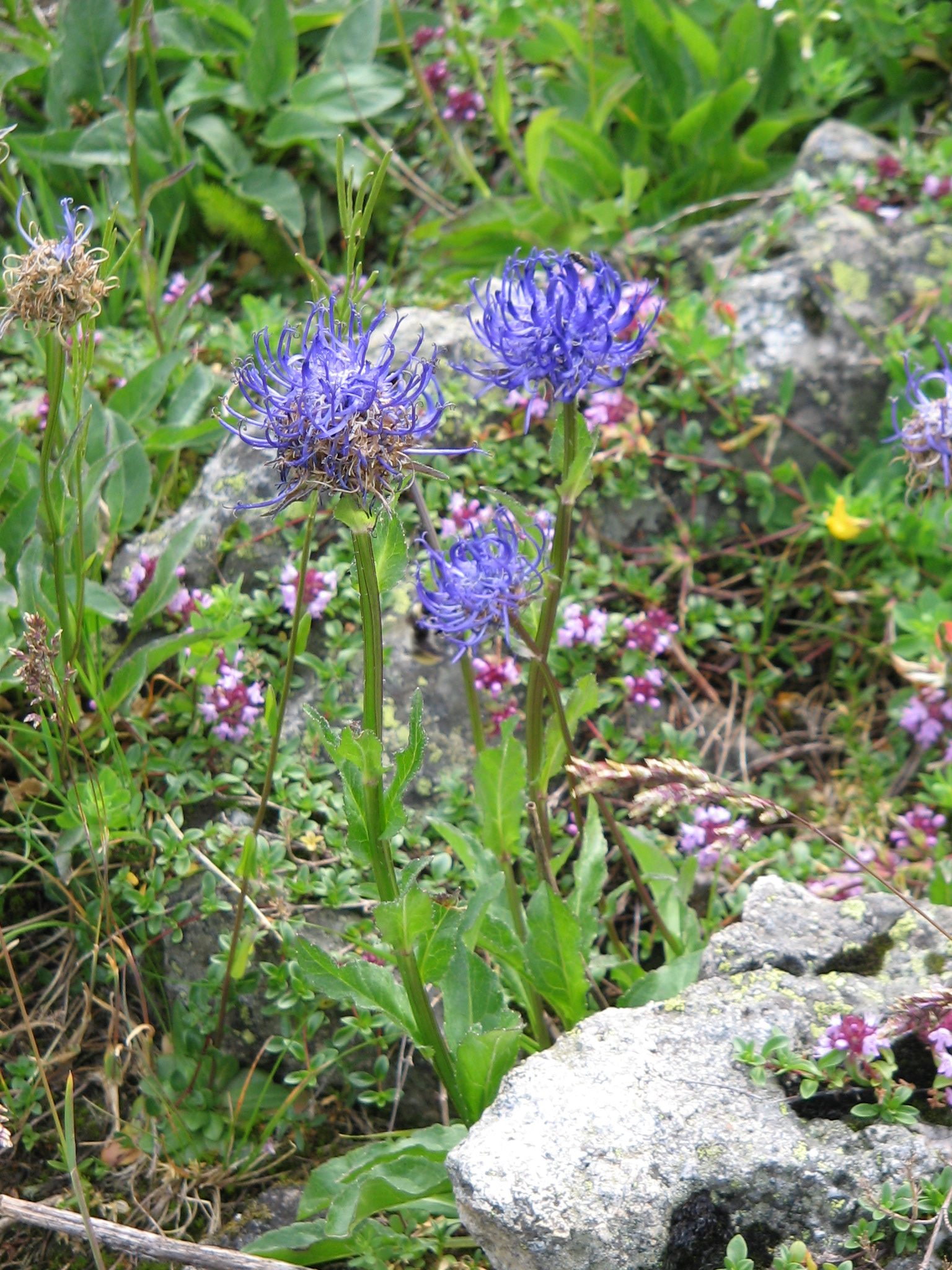 Phyteuma michelii